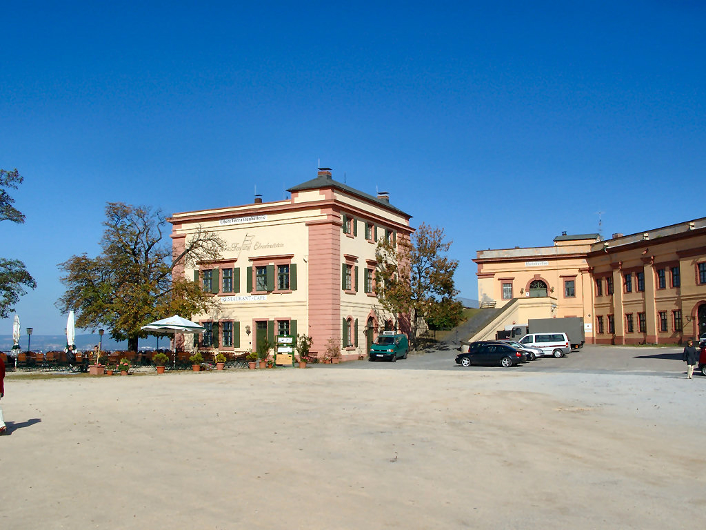 Festung Ehrenbreitstein in Koblenz